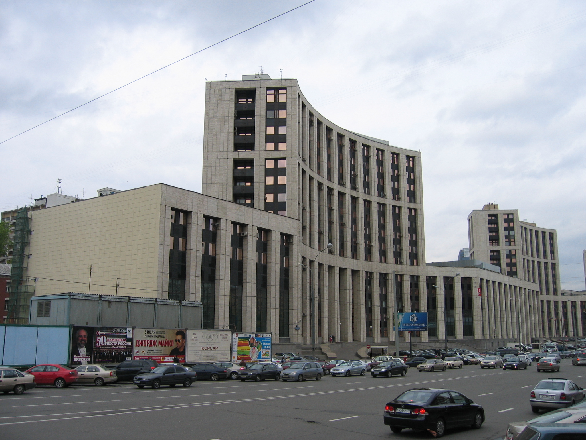 Vneshekonombank head office, Moscow